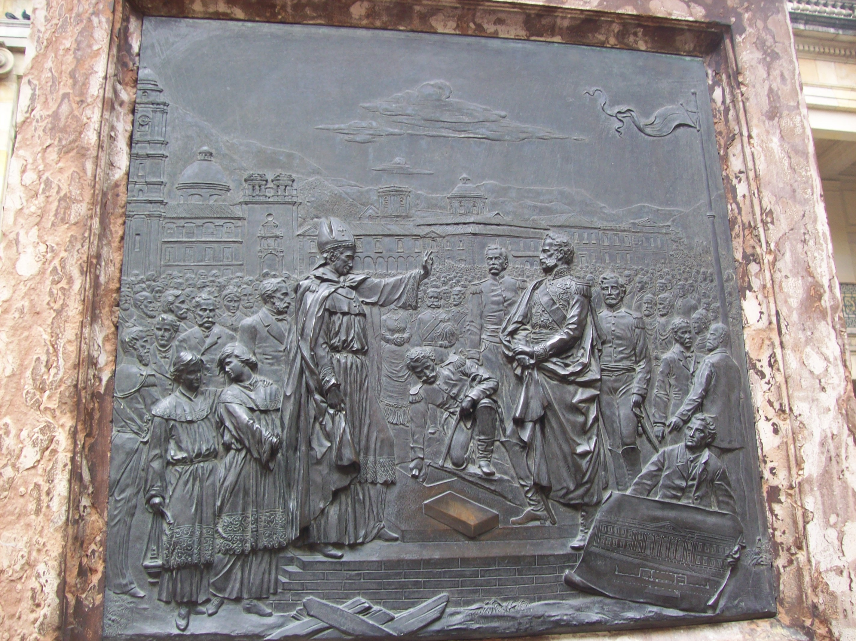 Bronze relief by Ferdinand von Miller (1813-1887), Munich (1881), currently located in the Mosquera coutyard of the Capitolio Nacional de Colombia. The Archbishop Manuel José Mosquera bless the corner stone of the Capitolio.